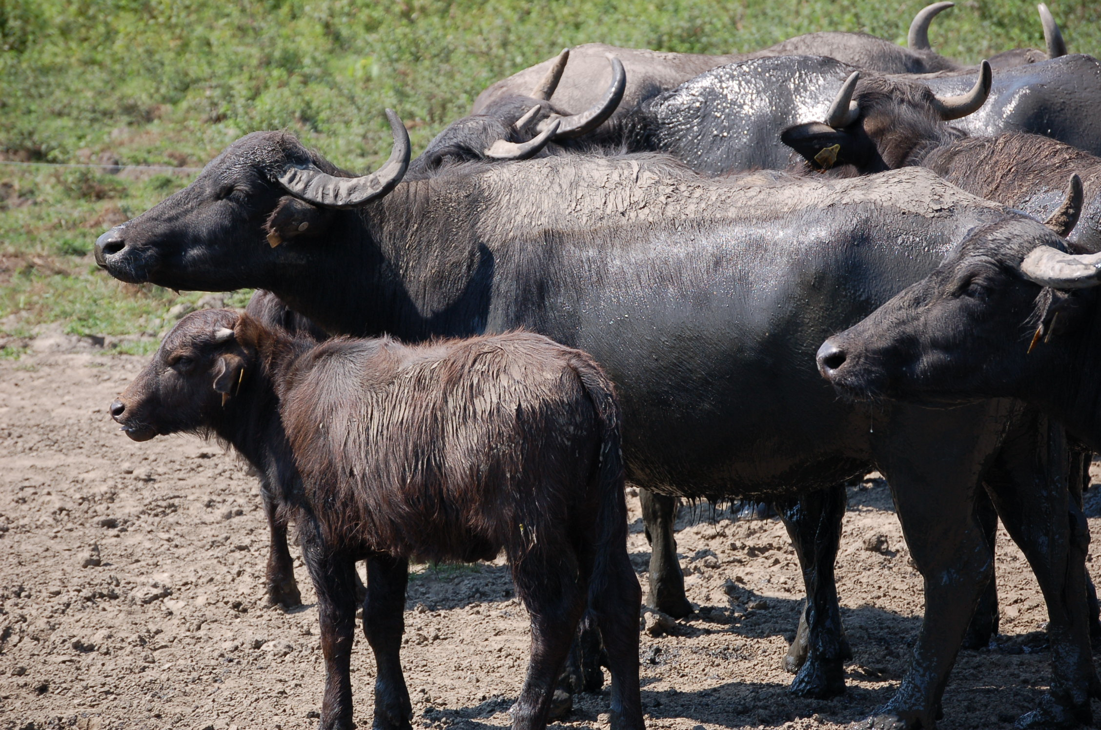 Buffaloes in a buffalo reservation near Balatonmagyaród, Kis-Balaton, Hungary